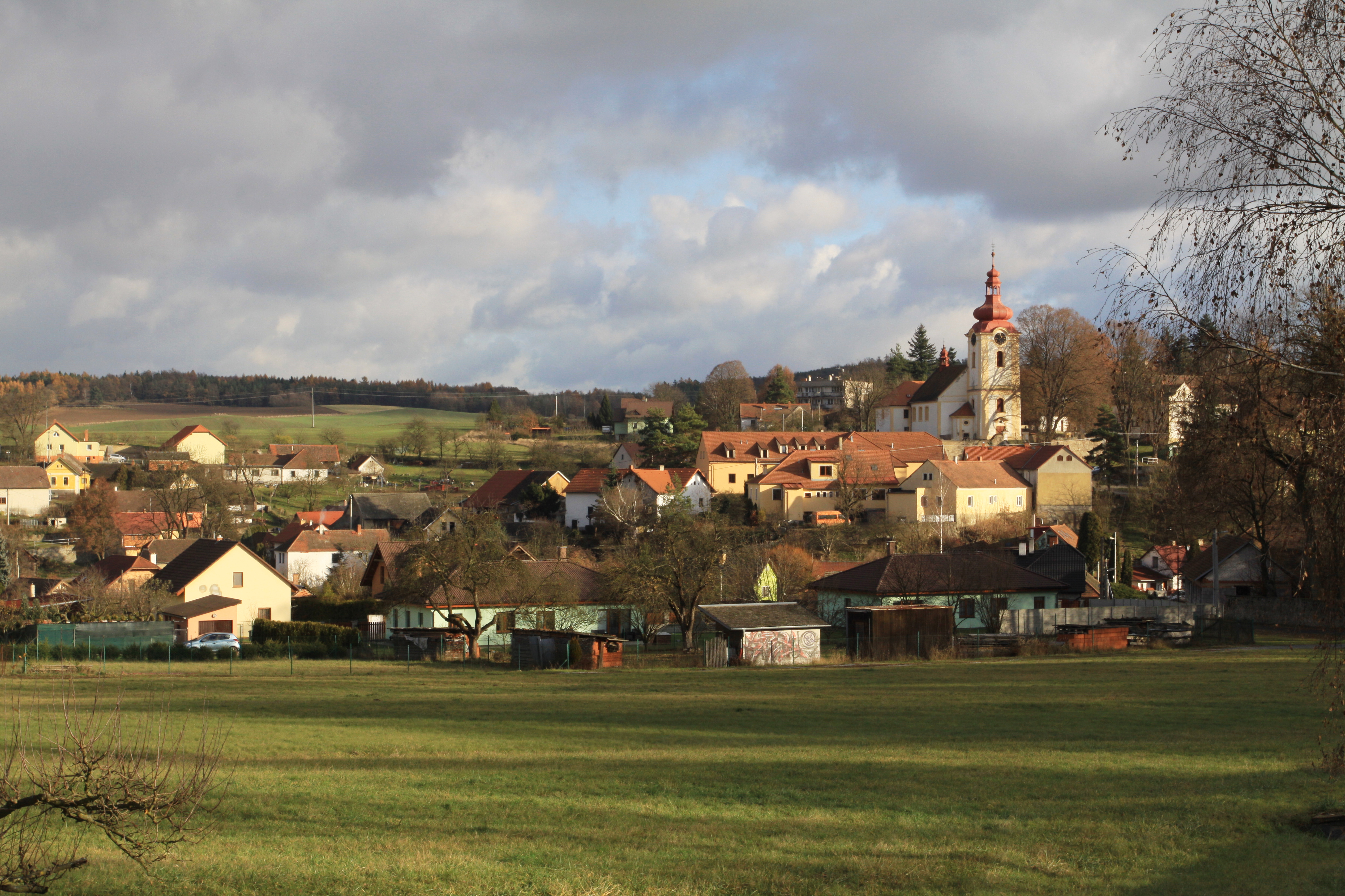 View to Chlum, part of village Nalžovice in Příbram District, Czech Republic